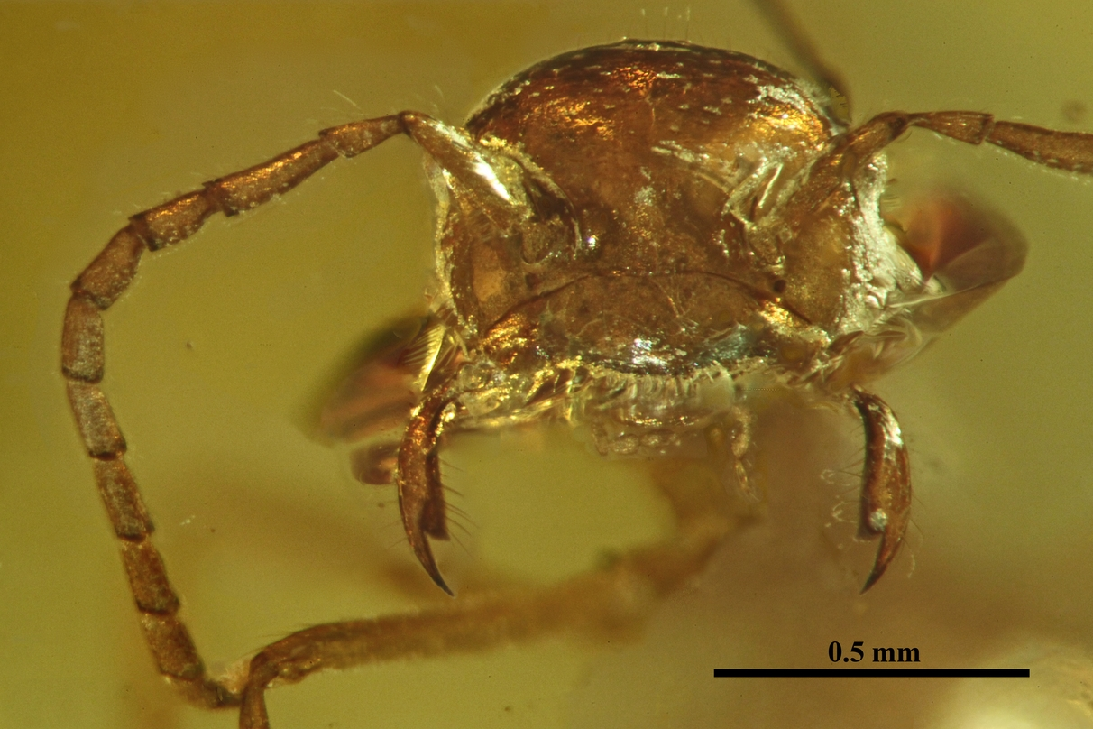 Close up view of a Gerontoformica orientalis worker specimen head, Jwj-bu21. Burmese amber, Myanmar, Earliest Cenomanian (99 million years old)